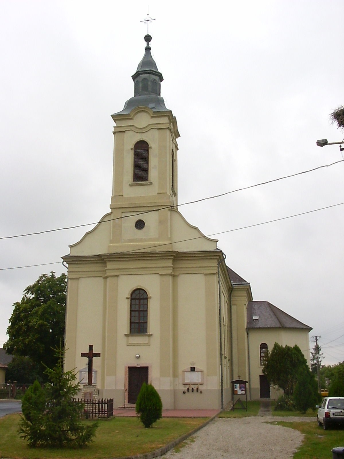 Nyalka, Nativity of Mary roman catholic church This is a photo of a monument in Hungary, Identifier: 4623